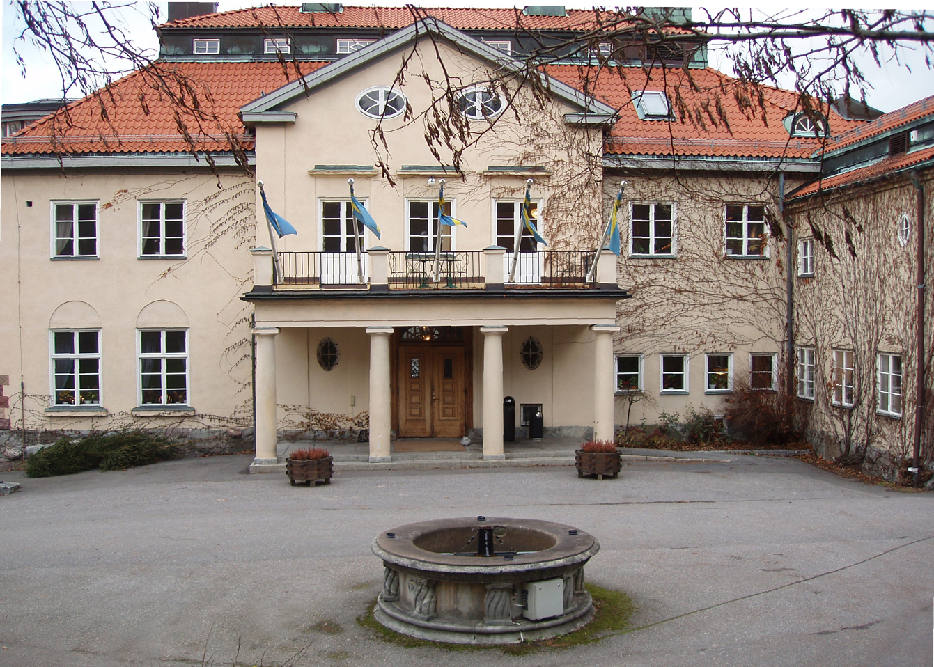 Villa Paulsro, Bosön, Lidingö, Sweden. Paul U. Bergström (PUB) private residence, Lidingö Sweden. Built around 1925. Today belongs to BOSÖN international atlets education center. Used as one of the conference buildings. The picture shows the main entrance.